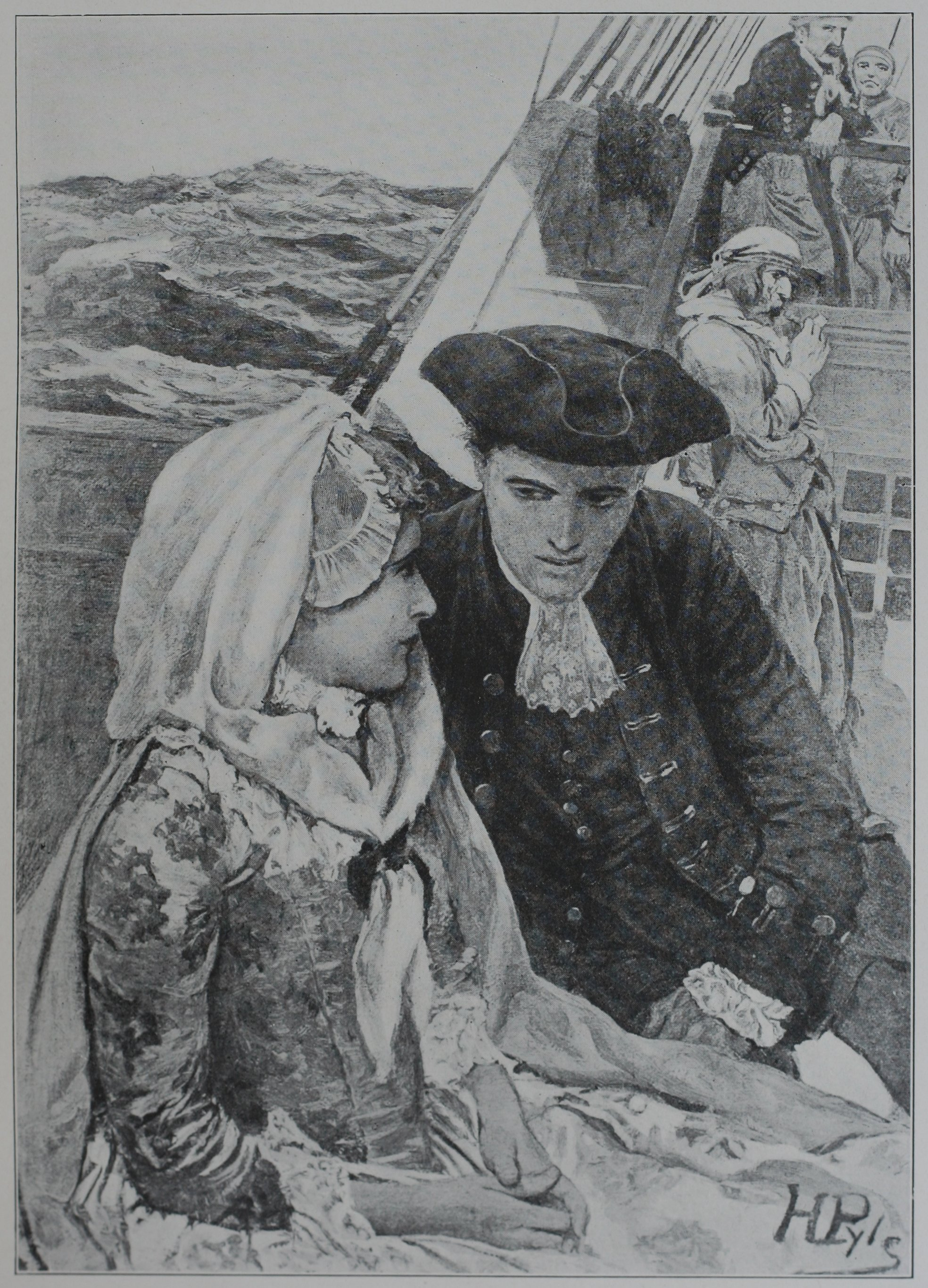 She Would Sit Quite Still, Permitting Barnaby to Gaze: this was originally published in Pyle, Howard (1896-12-19). "The Ghost of Captain Brand". Harper's Magazine.